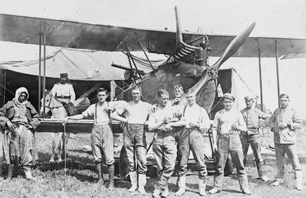 A group of smiling German soldiers and a local man (far left) standing in front of an AEG C.IV aircraft, probably in Palestine.